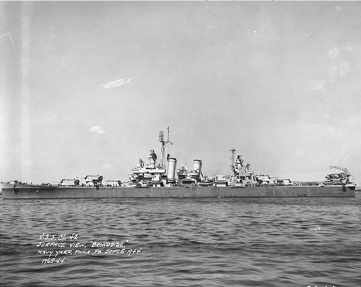 The U.S. Navy light cruiser USS Savannah (CL-42) off the Philadelphia Naval Shipyard, 5 September 1944, following battle damage repairs and modernization.